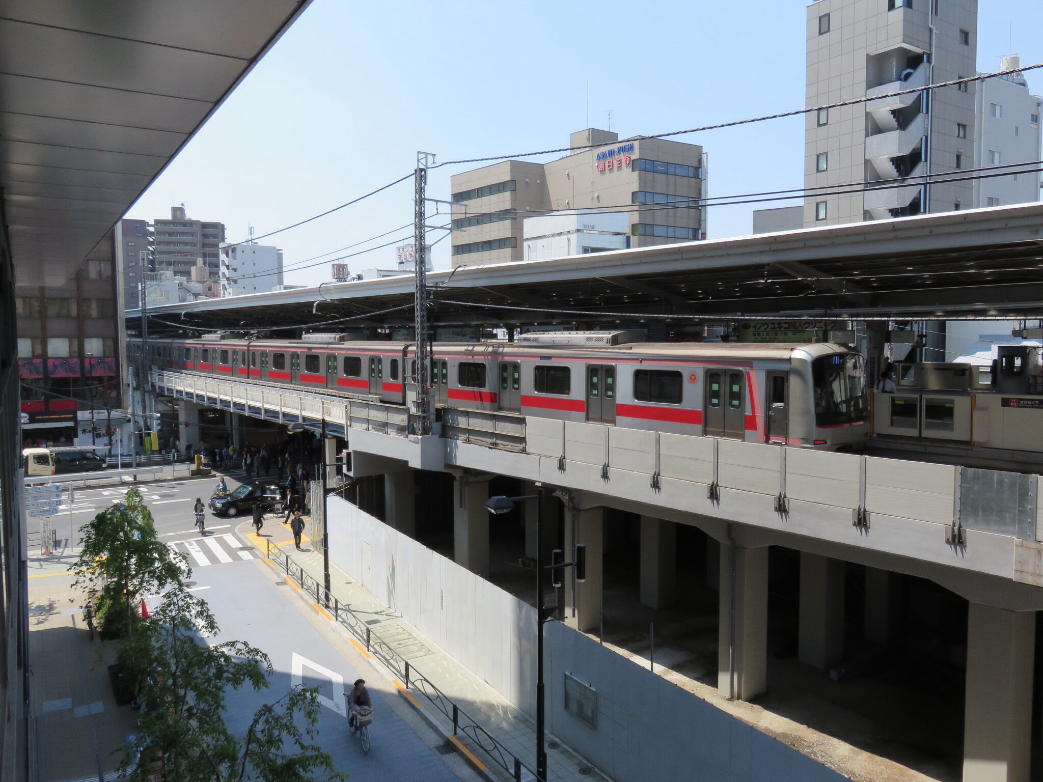 Naka-Meguro Station 2014